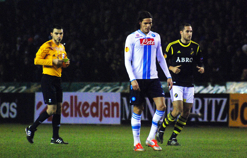 Cavani and Backman during AIK-Napoli, UEFA Europa League 2012-2013